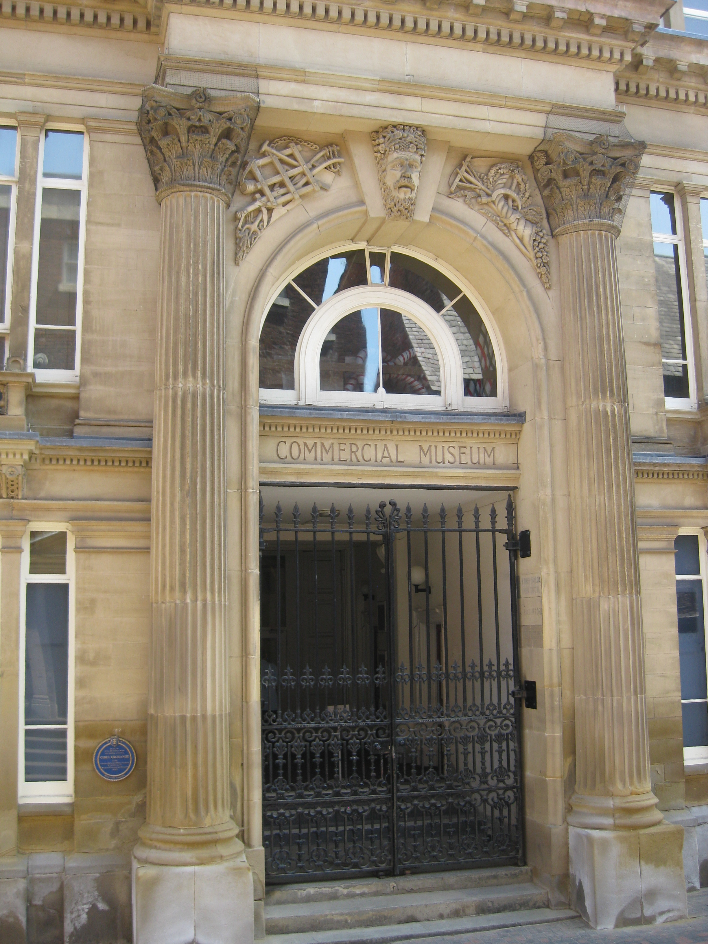 Entrance to the Commercial Museum, 36 High Street, Hull. Now part of Hull and East Riding Museum.